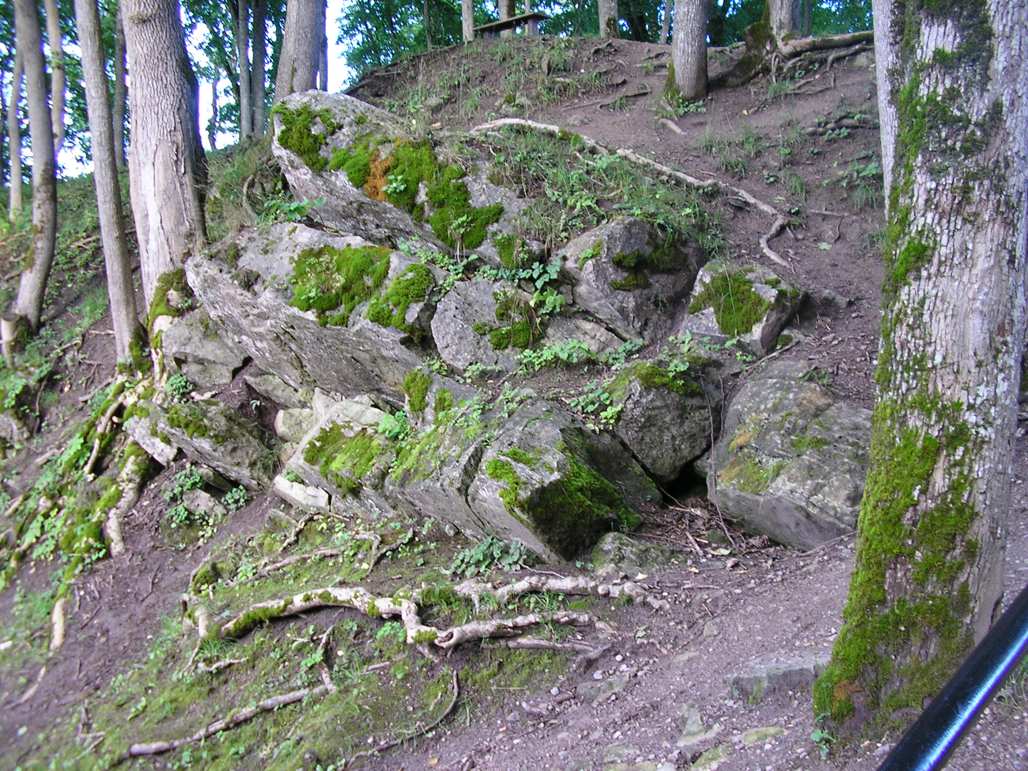 Dolomite rocks at Kaali main meteorite crater. They lay horizontally before the impact. The photo has been taken on 10 August 2005.